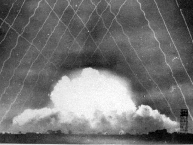 The first test shot conducted at the One Tree site during operation Buffalo, a test of the Red Beard tactical bomb.